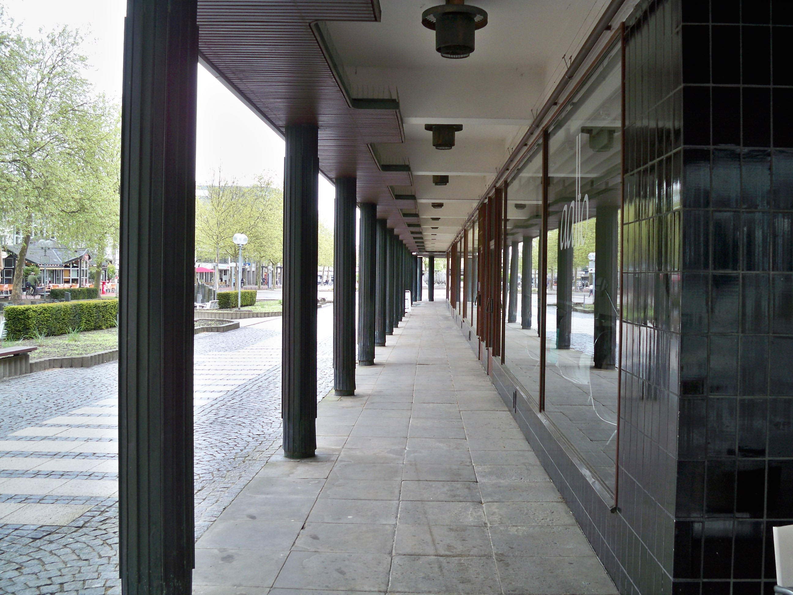 Wolfsburg, Lower Saxony, Alvar-Aalto-Haus, line of shops at Porschestraße